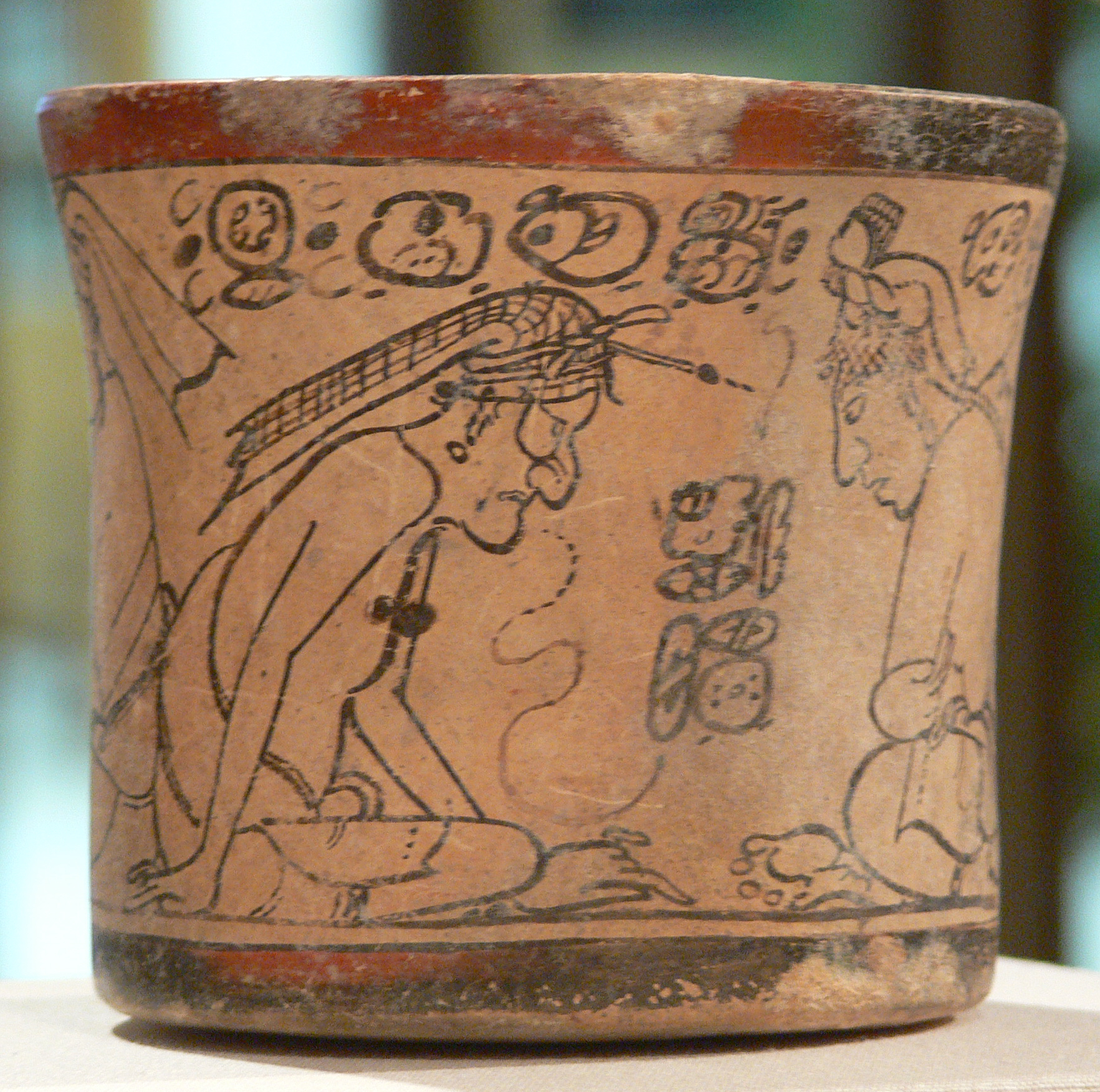 Codex-Style Vessel with Two Scenes of Pawahtun Instructing Scribes; c. A.D. 550–950; Possibly Mexico or Guatemala, Maya culture, Late Classic period (A.D. 600–900); Ceramic with monochrome decoration; height 8.9 cm Kimbell Art Museum, Fort Worth, Texas; AP 2004.04